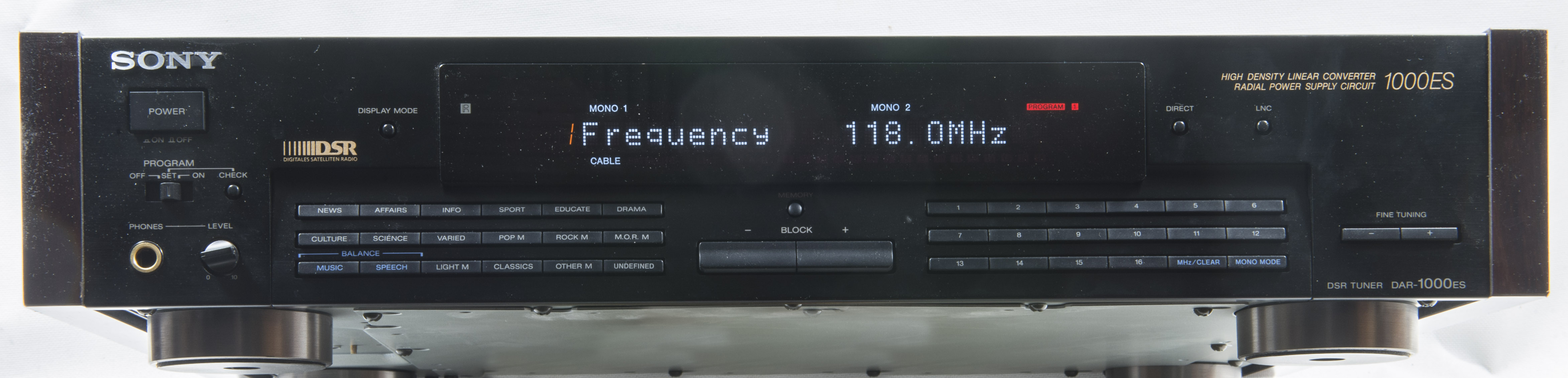 Sony DAR-1000 ES DSR Digital Tuner